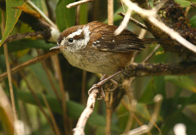 Timberline Wren (Thryorchilus browni) at Providencia Road, Costa Rica.